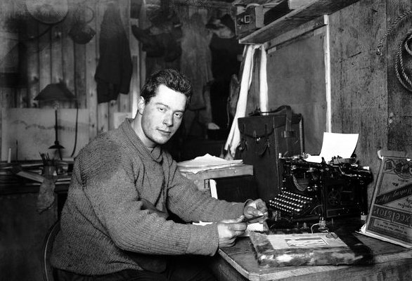 Polar explorer Apsley Cherry-Garrard in front of his typewriter in the Terra Nova hut at Cape Evans (Ross Island, Antarctica)